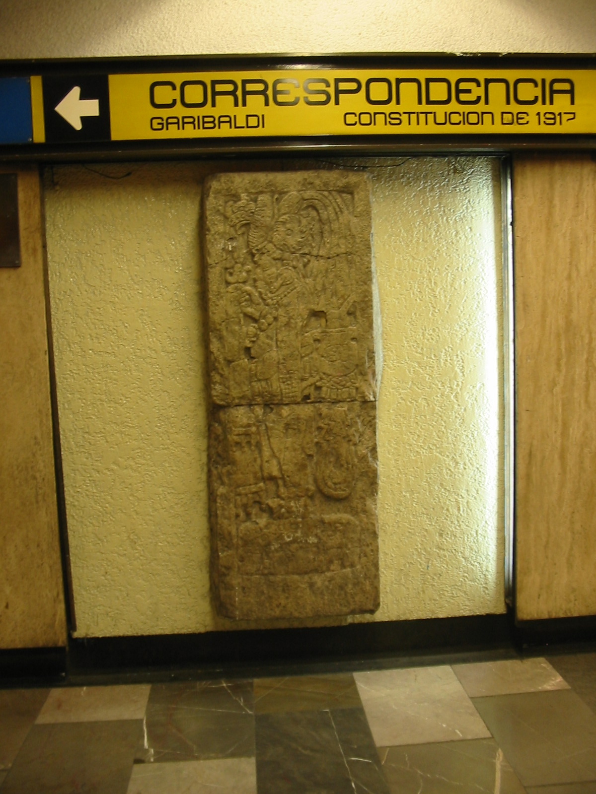 Replica of a stele from Calakmul located in Metro Bellas Artes in Mexico City. The accompanying plaque translates to "STELE OF CALAKMUL - Mayan Culture - Late Classic Period - Description: Stele that represents a Mayan governor wearing a headdress of long feathers that fall down his back and carries his characteristic manniquin sceptre."